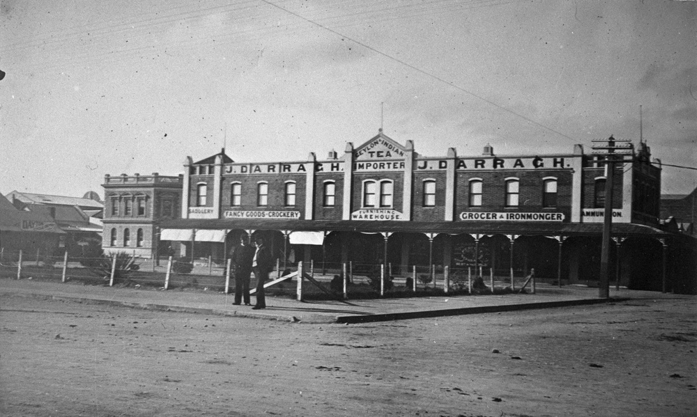 Darragh's store was established in 1879 and the building shown here built in 1900. In December 1995 it was destroyed by fire and replaced with a building whose façade was modelled on the original.